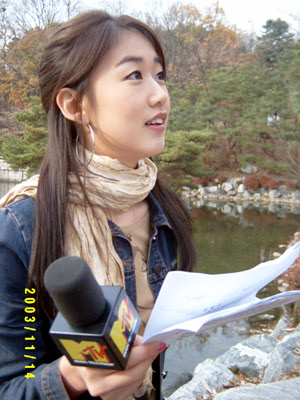 Taken when she was working as a VJ for MTV Korea